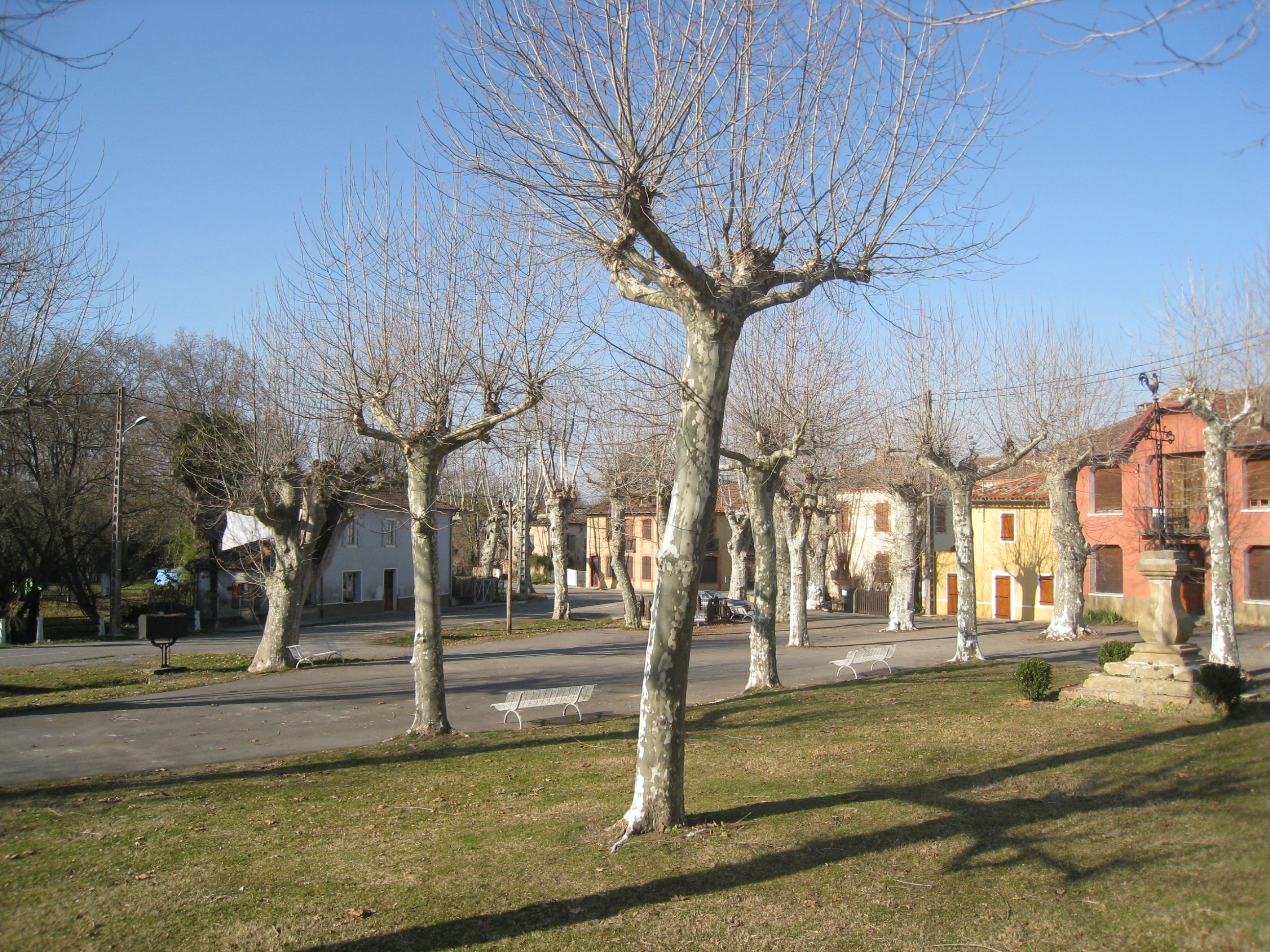 Saint-Laurent sur Save (France)